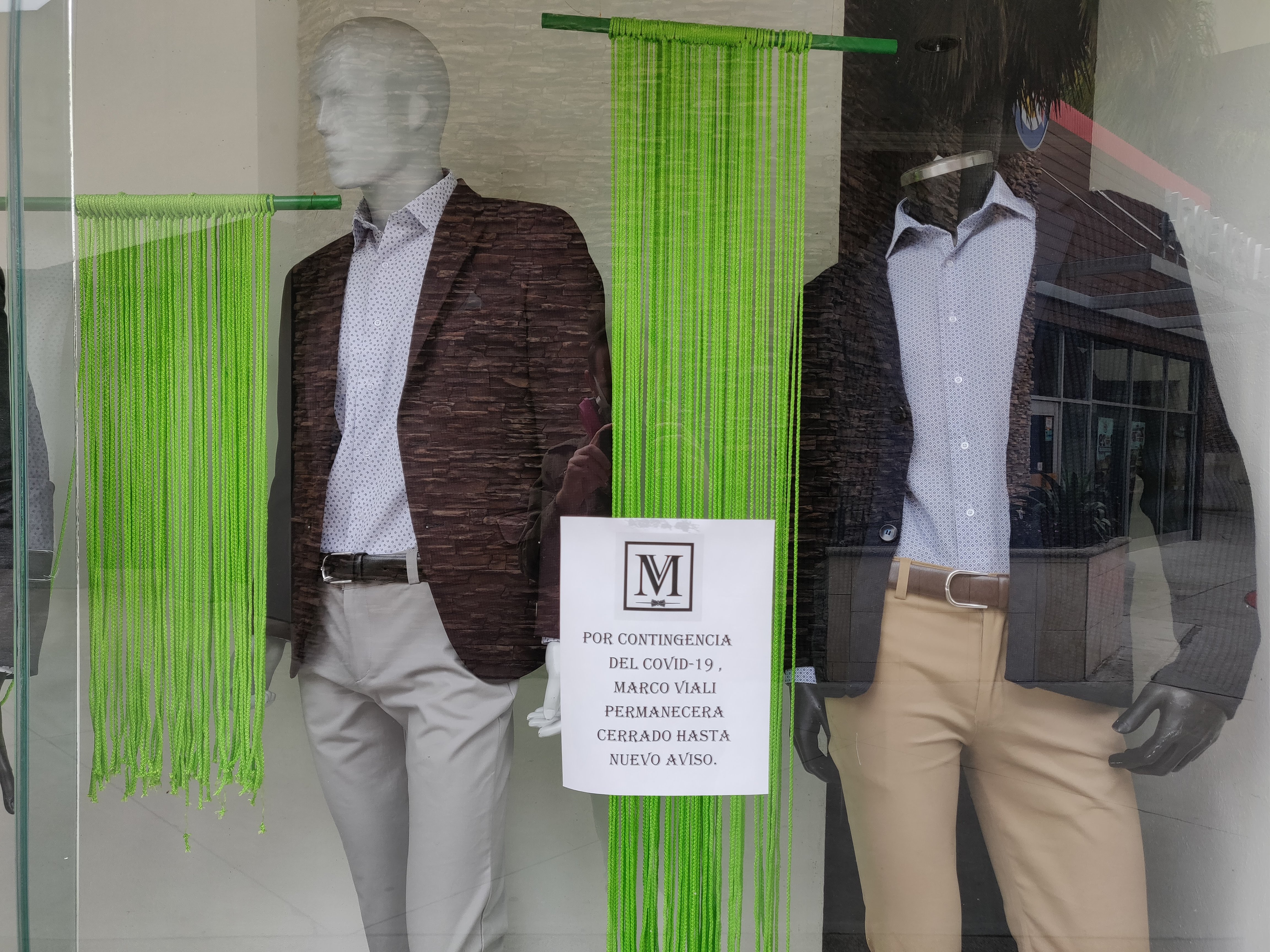 A clothing shop Tijuana's Plaza Rio shopping mall closed due to COVID-19.